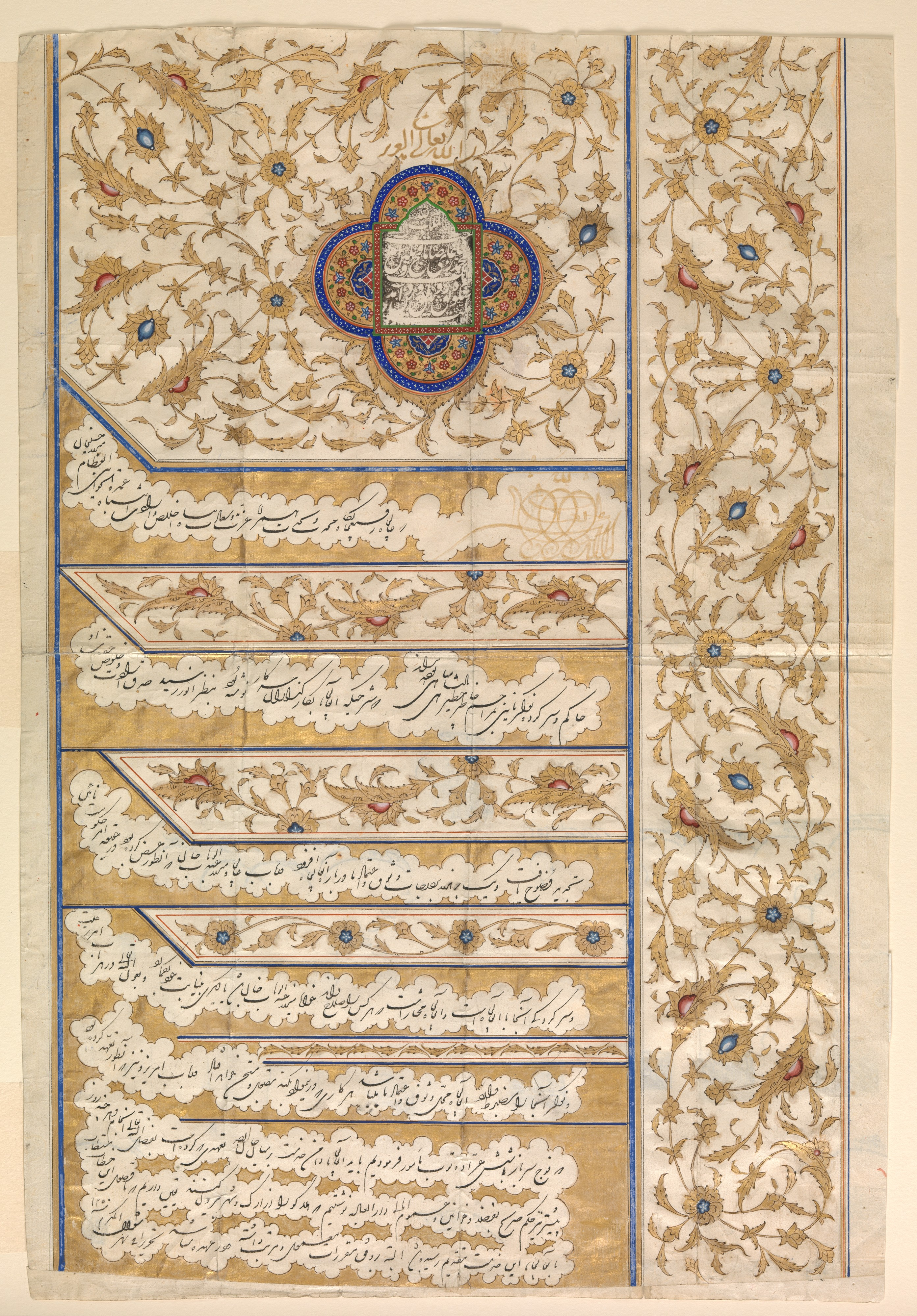 Single work, illustrated; Codices